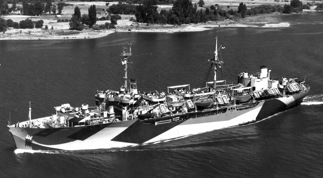 The U.S. Navy transport USS General S. D. Sturgis (AP-137) underway on 16 July 1944. She is painted in Camouflage Measure 32, Design 13T. The photo was taken by and aircraft of Naval Air Station Astoria, Oregon (USA).